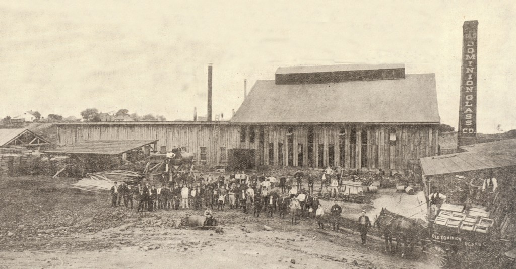 Photograph of the exterior of the Old Dominion Glass Company